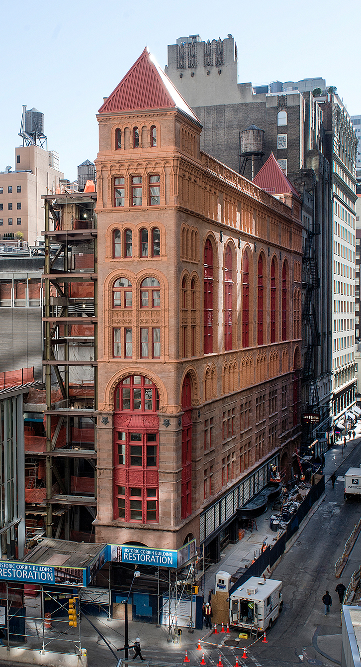 Crop of File:FultonSt 8043 (8551553985).jpg.MTA Capital Construction is building the Fulton Center, which will serve as an essential transportation and retail hub in Lower Manhattan, providing a seamless transfer for passengers connecting to the A, C, J, Z, 2, 3, 4 and 5 subway lines and connections to the E, R and 1 lines. This photo shows an update on the status of construction as of March 5, 2013. The project includes a meticulous restoration of the historic Corbin Building, at the northeast corner of John Street and Broadway. Photo: Metropolitan Transportation Authority / Patrick Cashin.